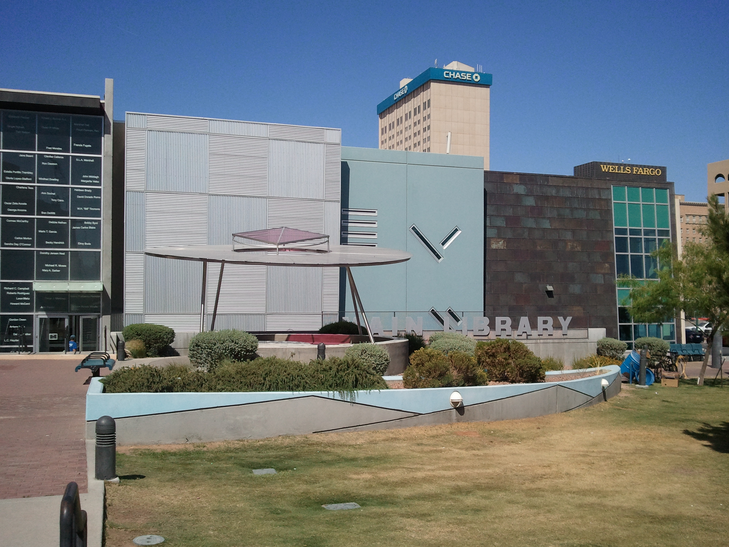 EP Public Library